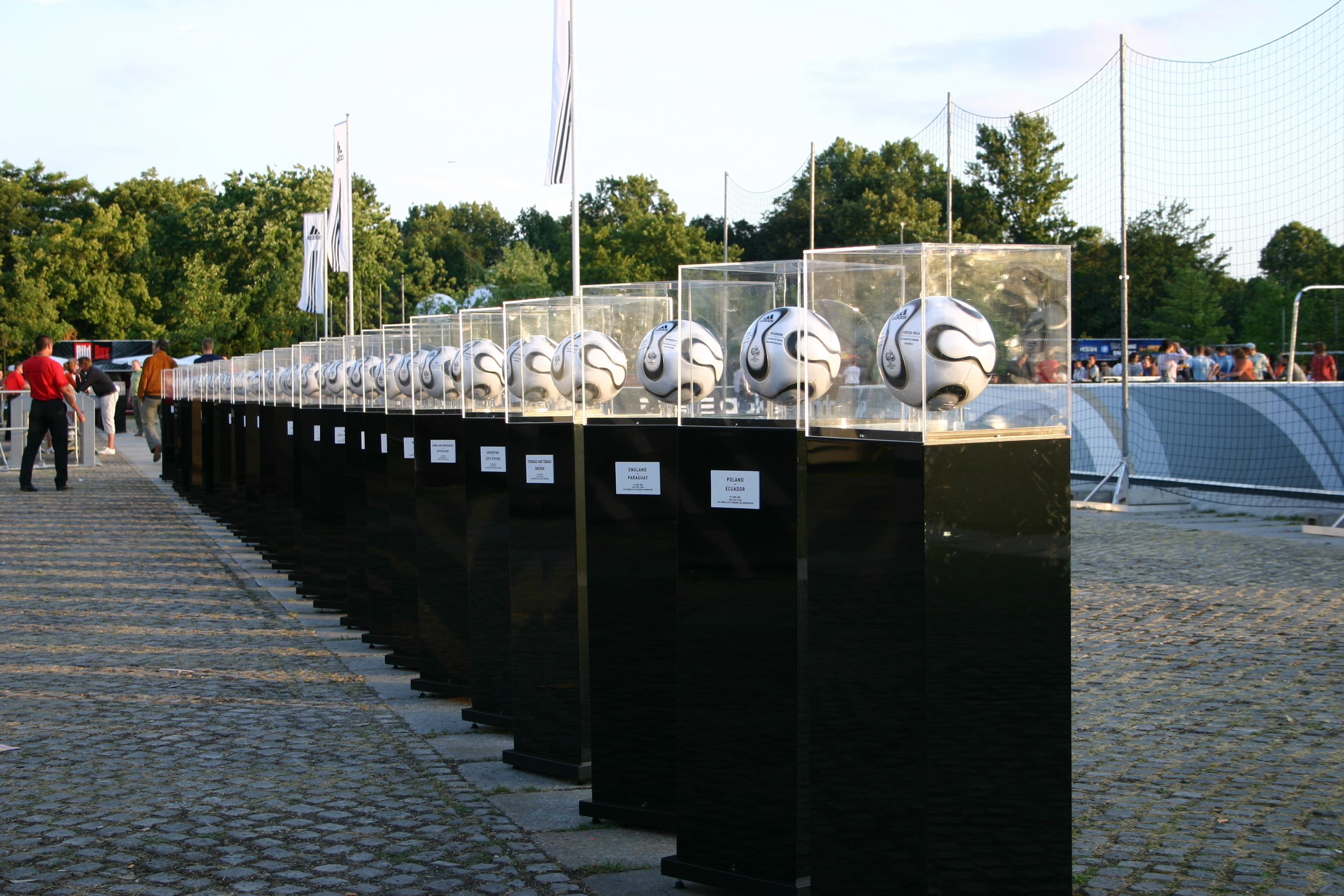 Adidas Teamgeist gallery in "world of football", Berlin, Germany. Image by Will Collins.